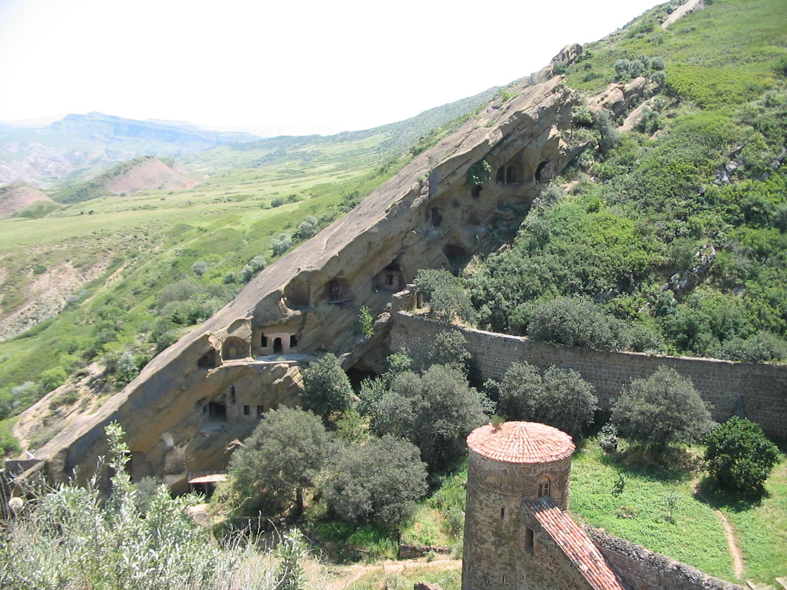 David Gareja monastery complex in the Kakheti region of Eastern Georgia.